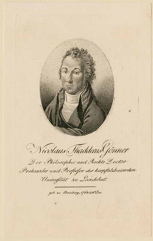 The german jurist Nikolaus Thaddäus von Gönner (1764-1827)